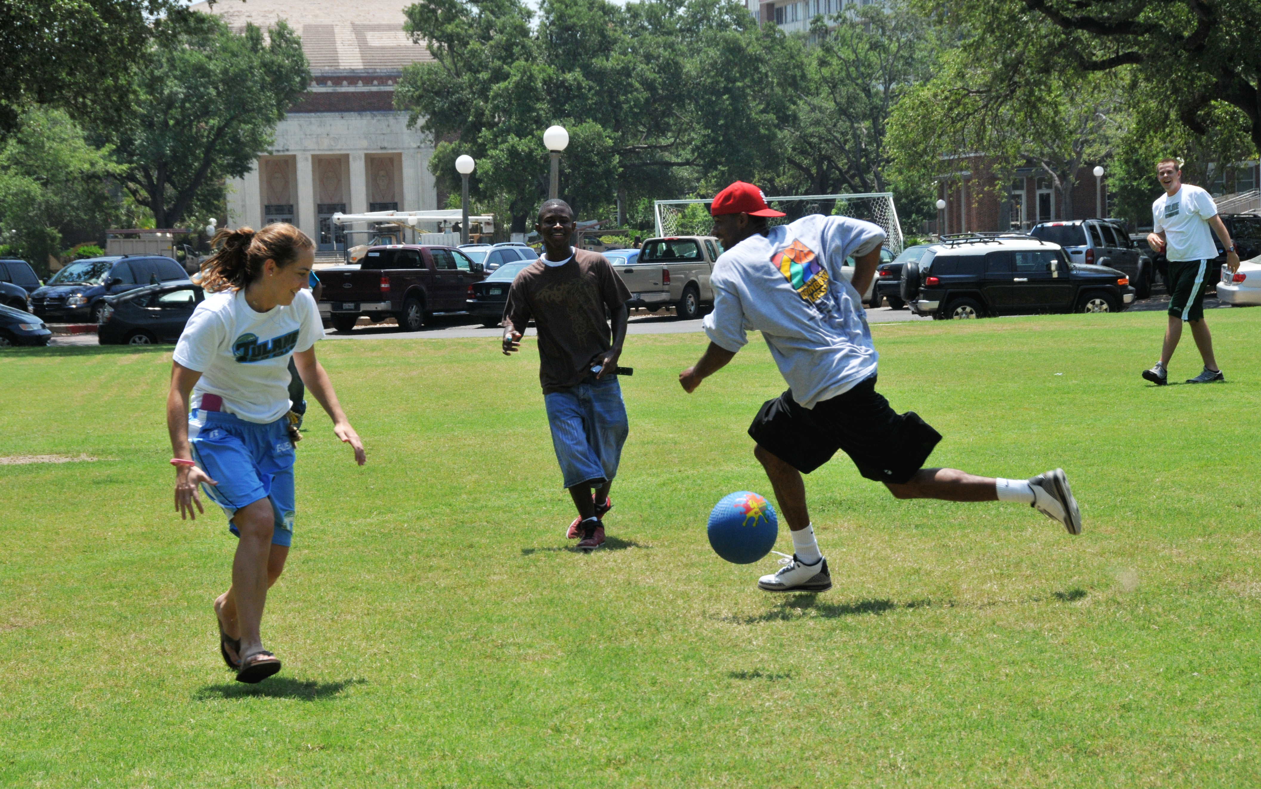 Tulane Athletes playing kickball with Upward Bound Students